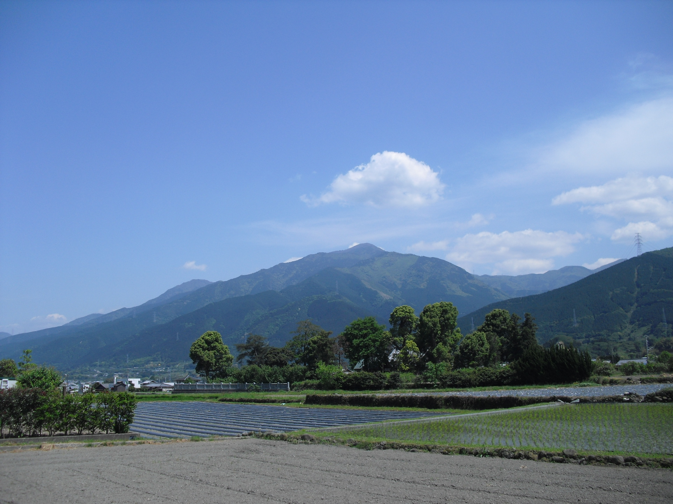 Akaboshiyama (Mount Akaboshi) as seen from the northwest in Shikokuchuo, Ehime Prefecture, Japan.